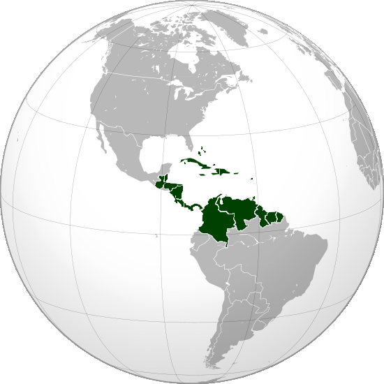 Antillas (orthographic projection) The Caribbean Region (in the loosest sense of the word) is highlighted in green.This includes the Antilles, The Bahamas, The Guianas, Belize, Colombia, and Venezuala.